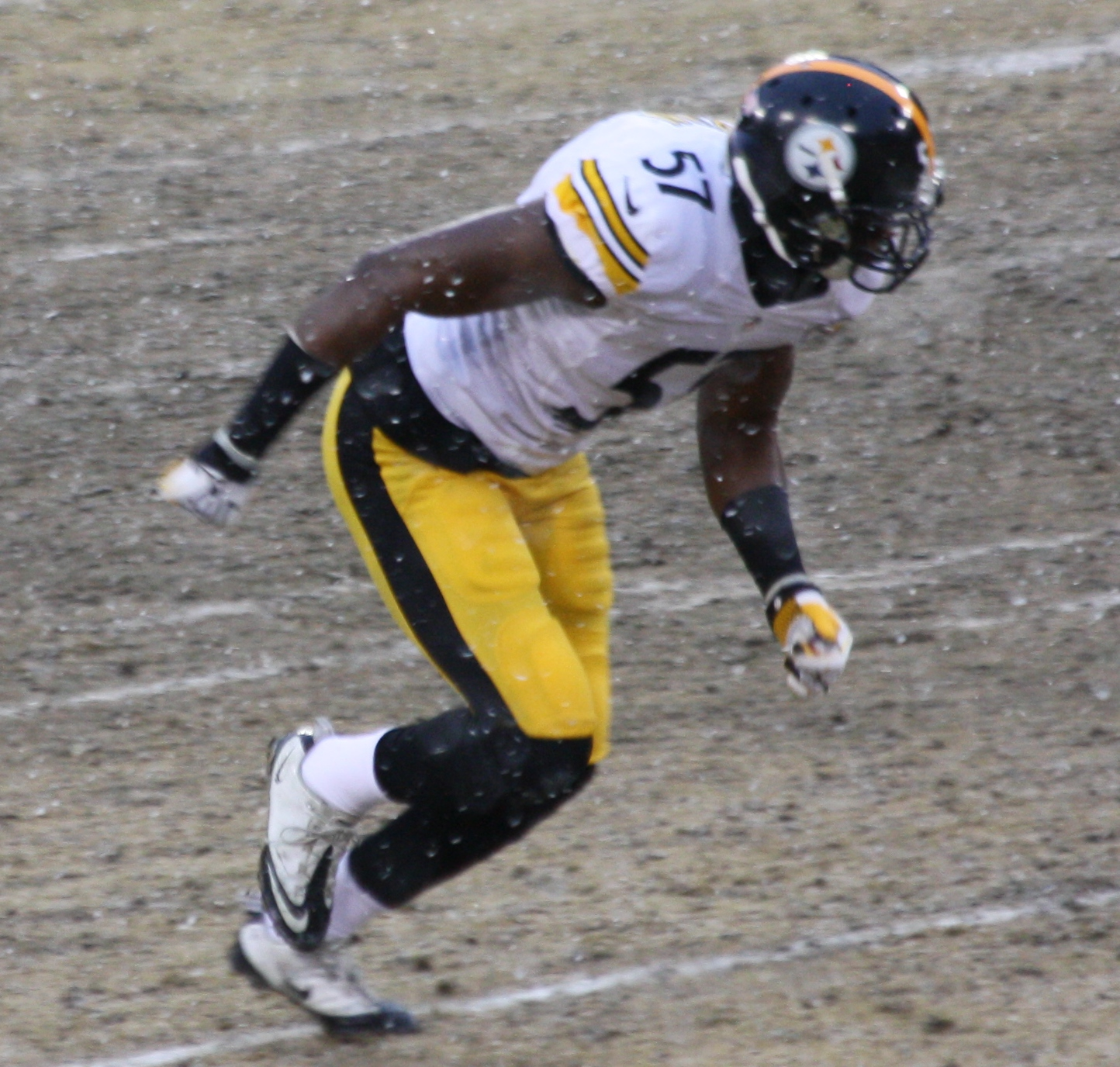 Pittsburgh Steelers player Terence Garvin during a kickoff.